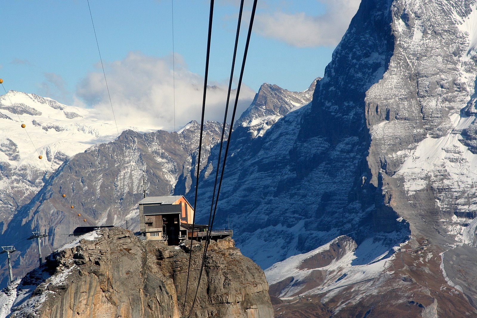 The Schilthorn cable car (intermediate station). This picture does not show a real situation, but is a modified picture: the background of the Eiger Nordwand is not to be found next to the Schilthorn cable car.